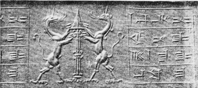 Cylinder seal of the Elamite king: Humban Kitin